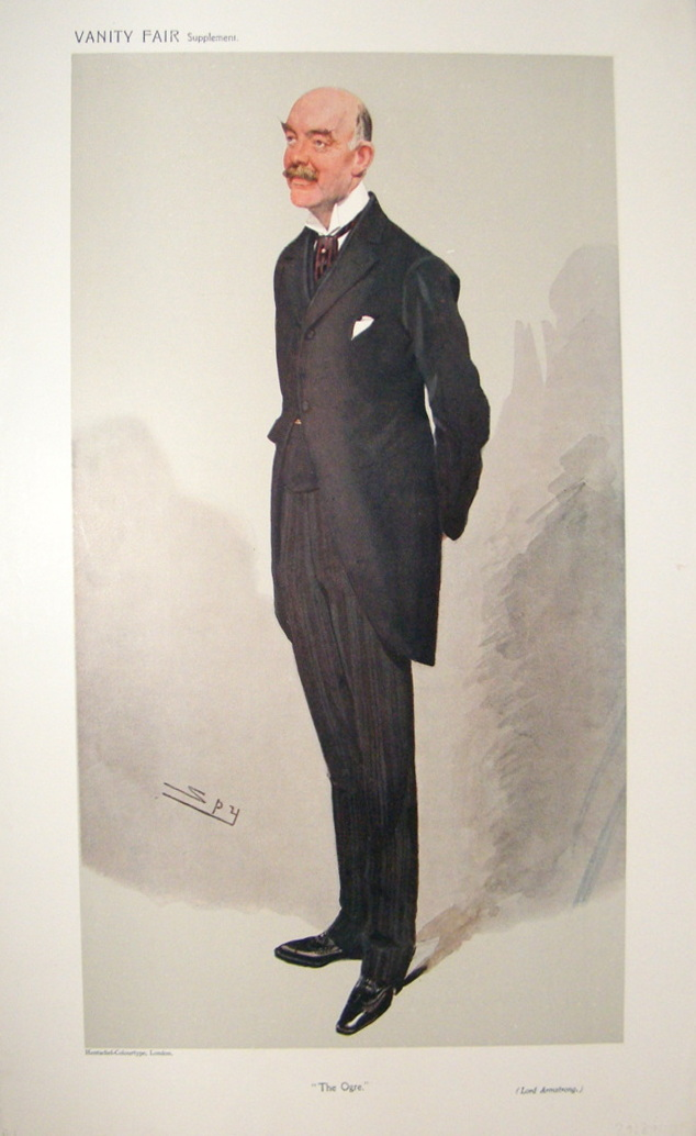 Men of the Day No.1108: Caricature of Lord Armstrong. Caption reads: "The Ogre"